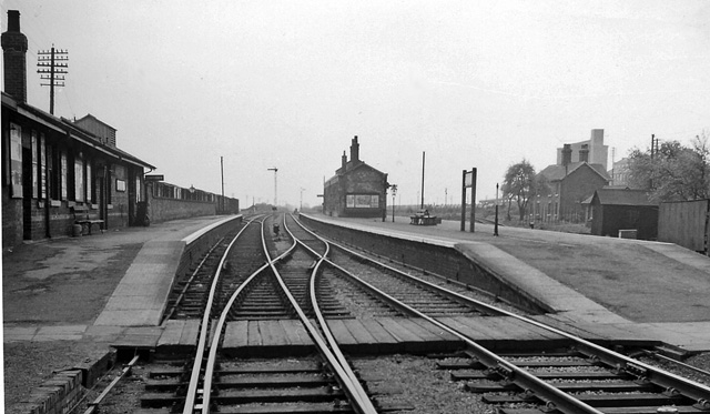 Bardney Station. View SE, towards Woodhall Junction and Boston; Sugar Factory on right. There used to be main lines from Lincoln to Boston and (via Woodhall Junction) to Firsby, but all closed on 5/10/70; Bardney was also the junction for a branch to Louth that closed as early as 5/11/51. (Certainly, no one seemed to be around when I took this photograph in 1961).